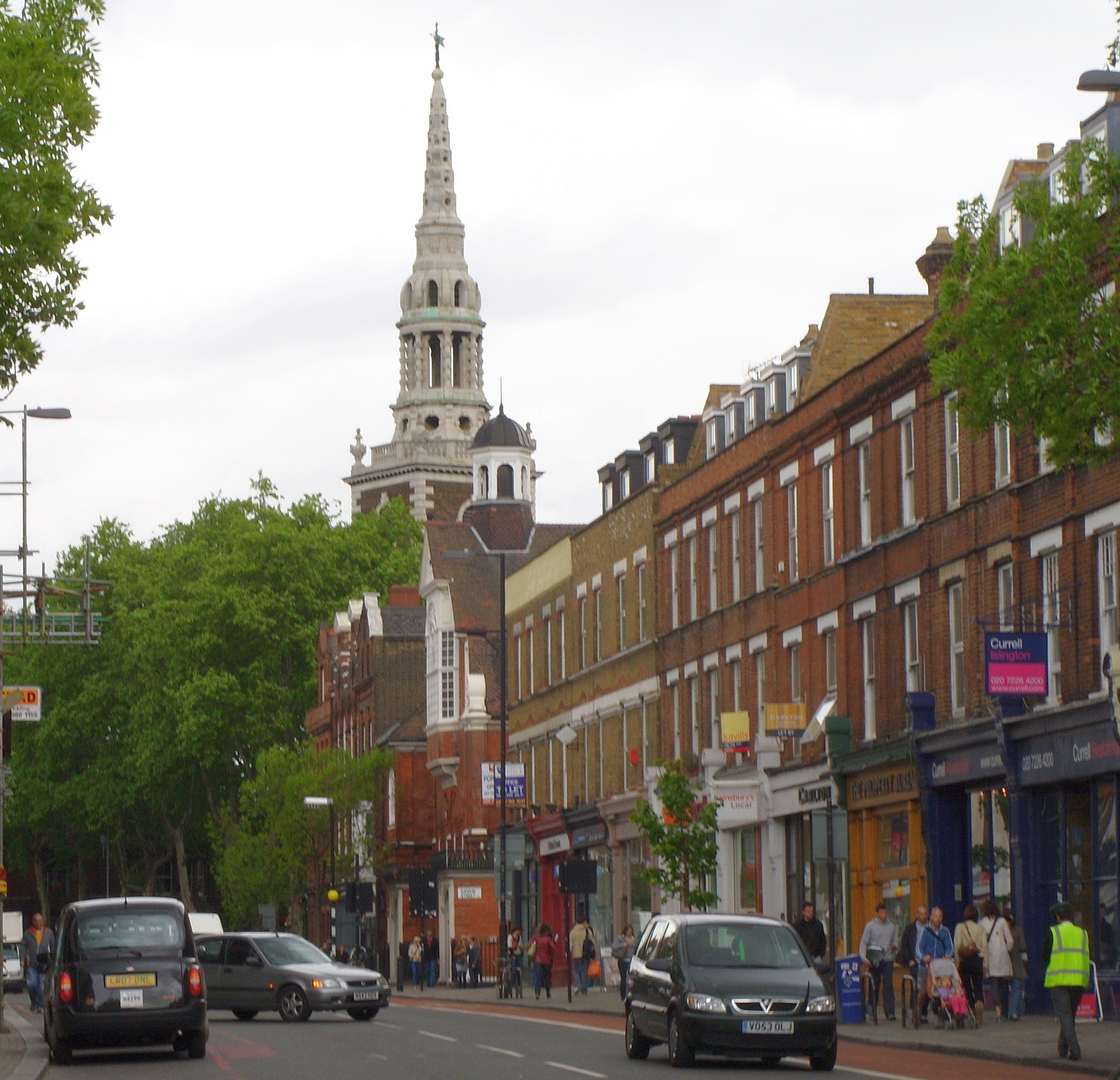 Upper Street, Islington, showing St Mary's Church